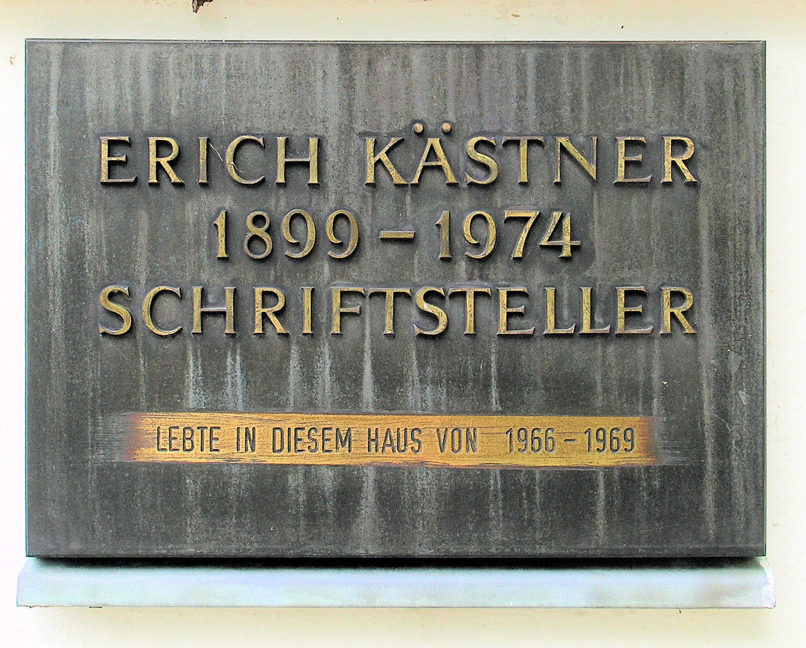 Memorial plaque, Erich Kästner, Parkstraße 3a, Berlin-Hermsdorf, Germany Koordinate:52°37′26″N 13°19′9″E / 52.62389°N 13.31917°E